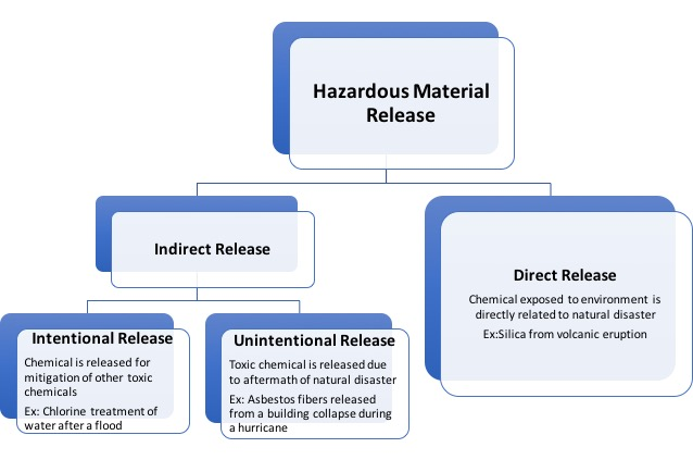 Classification of hazardous material releases associated with natural disasters.